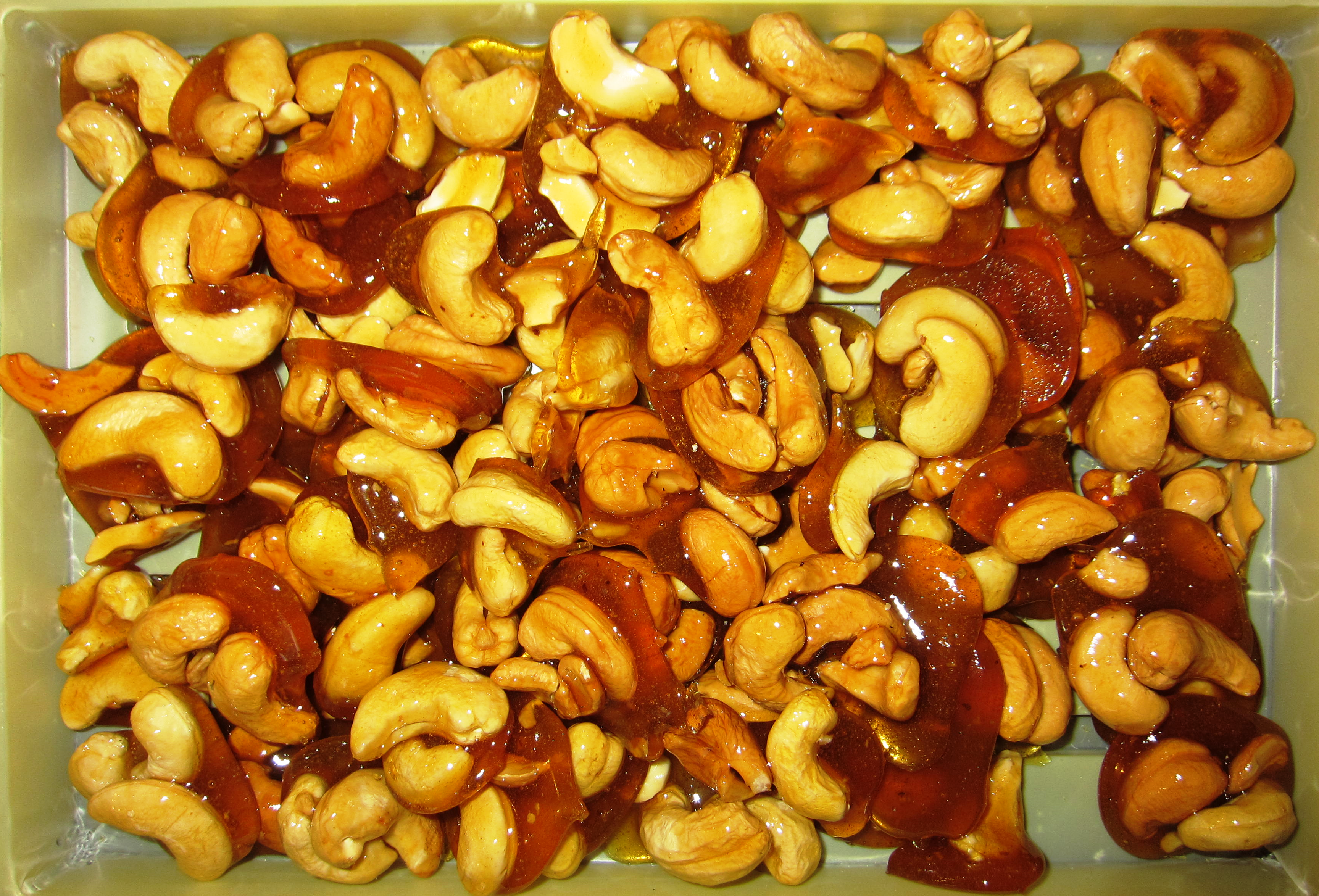 Sohan Asali with cashew, an Iranian pastry made from honey